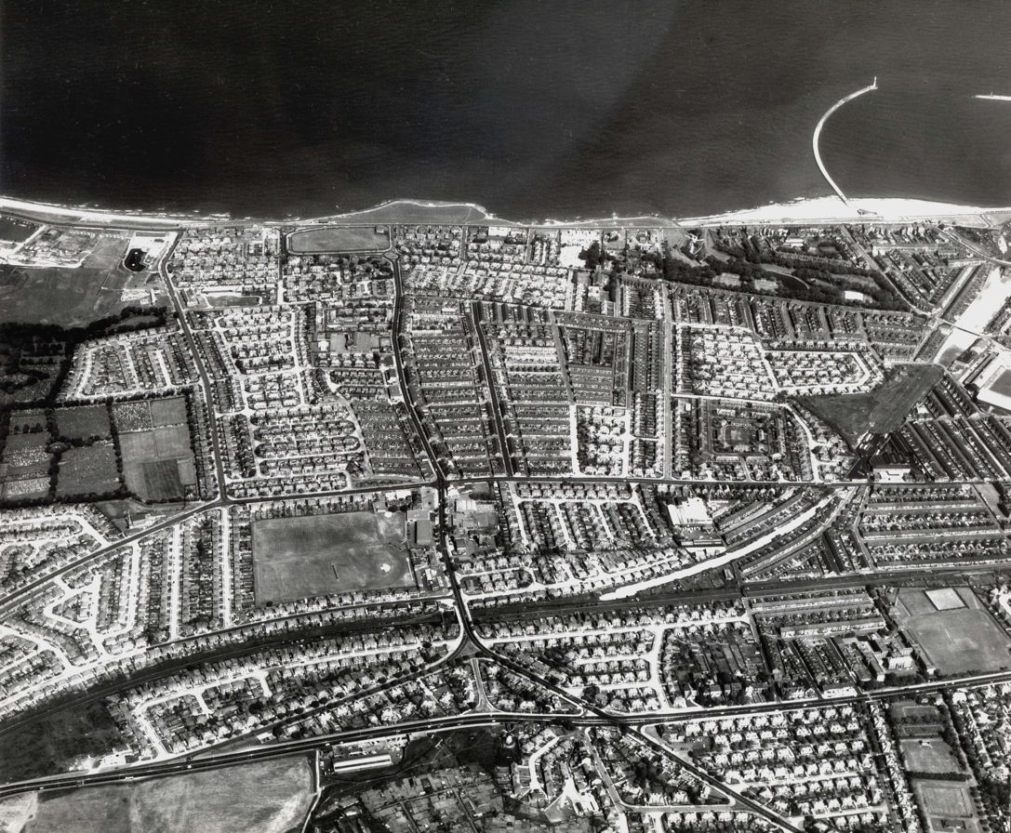 Station Road and Sea Road bisect this photograph, leading to the coast. The pleasure park, with ‘the only scenic railway in the north-east’ can be just made out on the upper left, with Roker Park on the right, below the North Pier. Reference:TWAS: DT.TUR.7.27 (Copyright) We're happy for you to share this digital image within the spirit of The Commons. Please cite 'Tyne & Wear Archives & Museums' when reusing. Certain restrictions on high quality reproductions and commercial use of the original physical version apply though; if you're unsure please . To purchase a hi-res copy please quoting the title and reference number